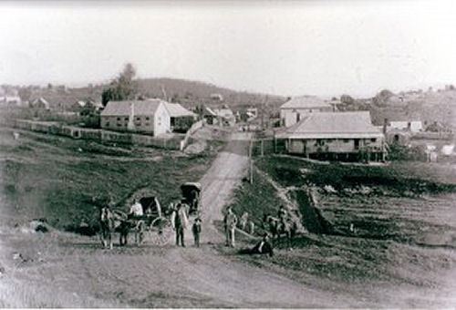 Mt McDonald Ca 1900. The timber church was built in 1884 and was demolished in 1927, by which time the entire population had moved on.